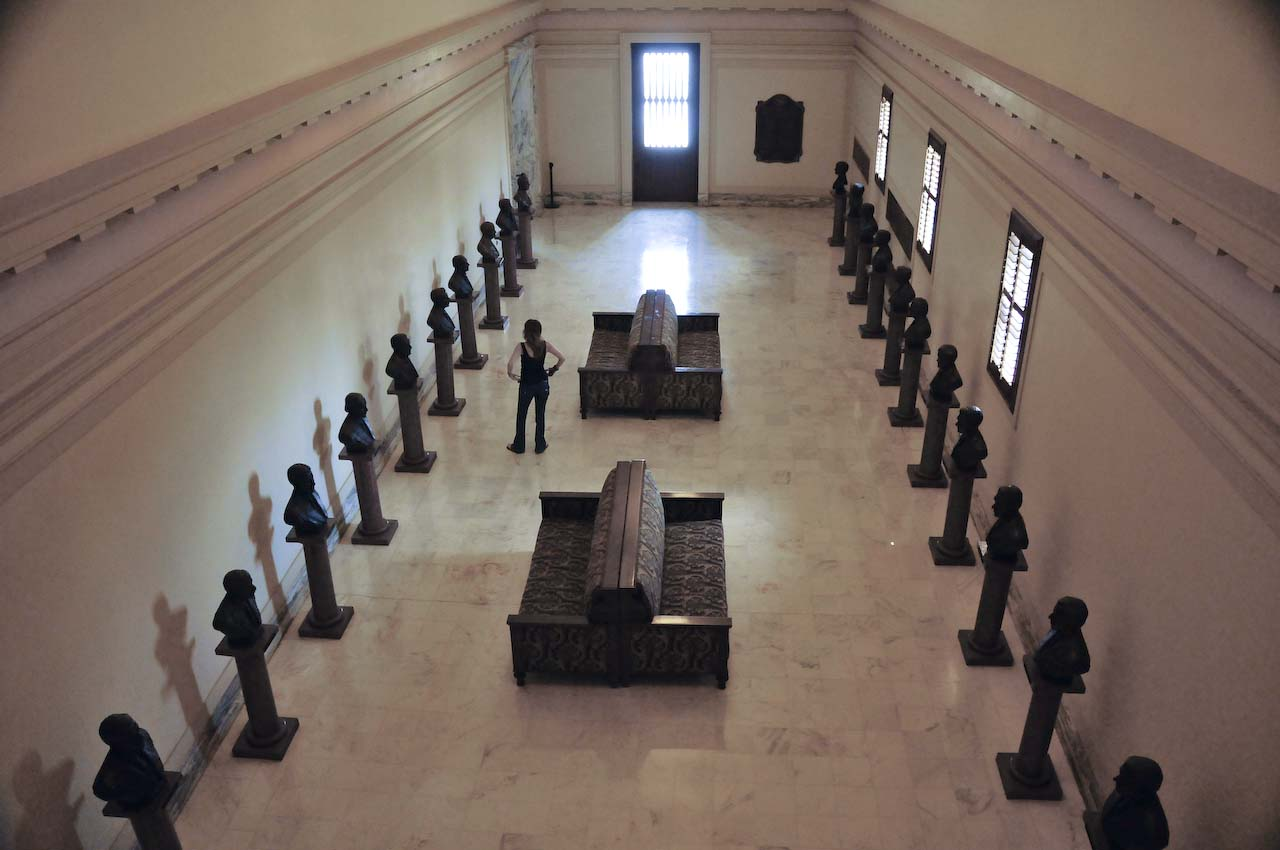 Hallway leading to the supreme Court Door